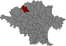 Location of Agullana in Alt Empordà